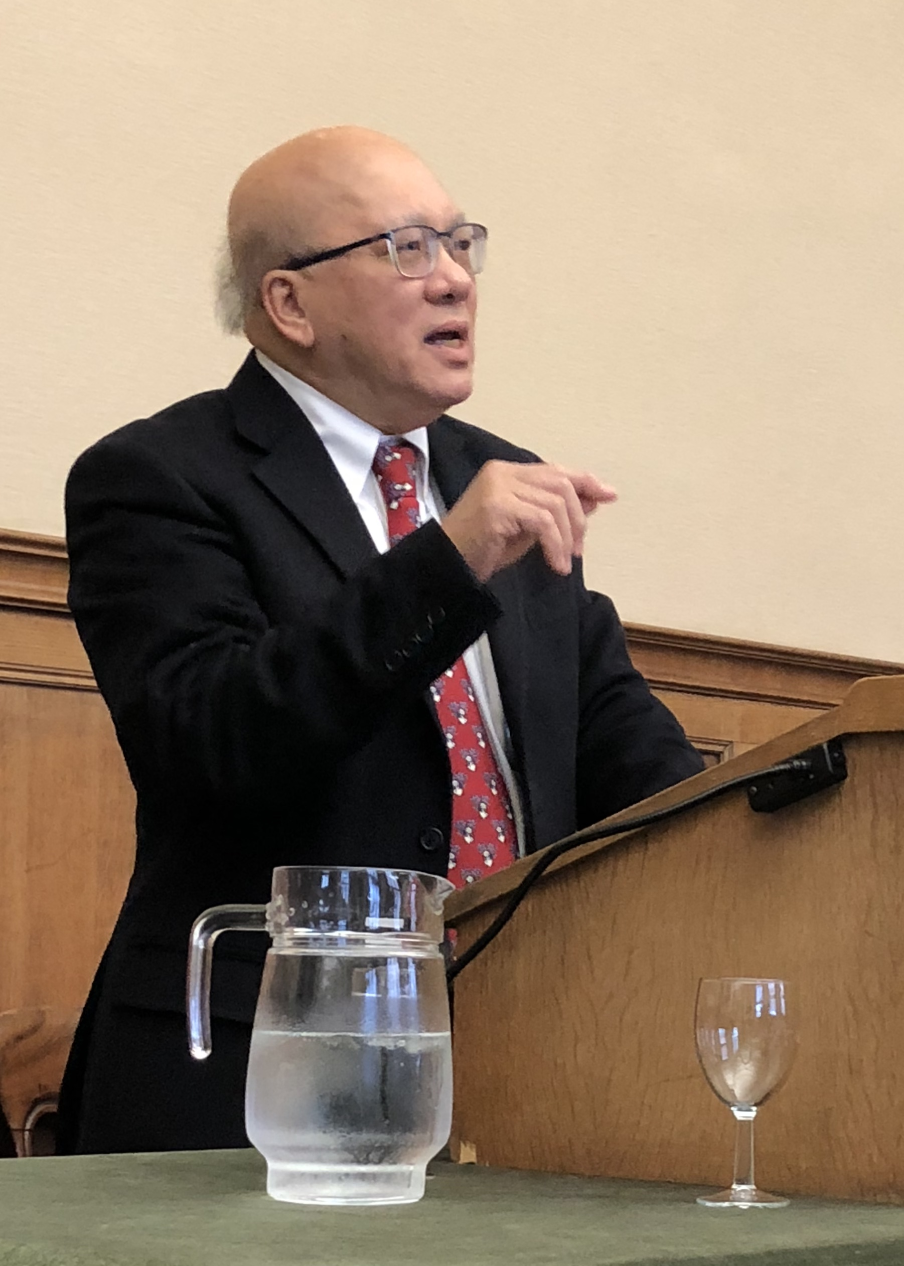 Professor Peter C. Phan delivering the 2018 Cunningham Lectures at the School of Divinity, University of Edinburgh